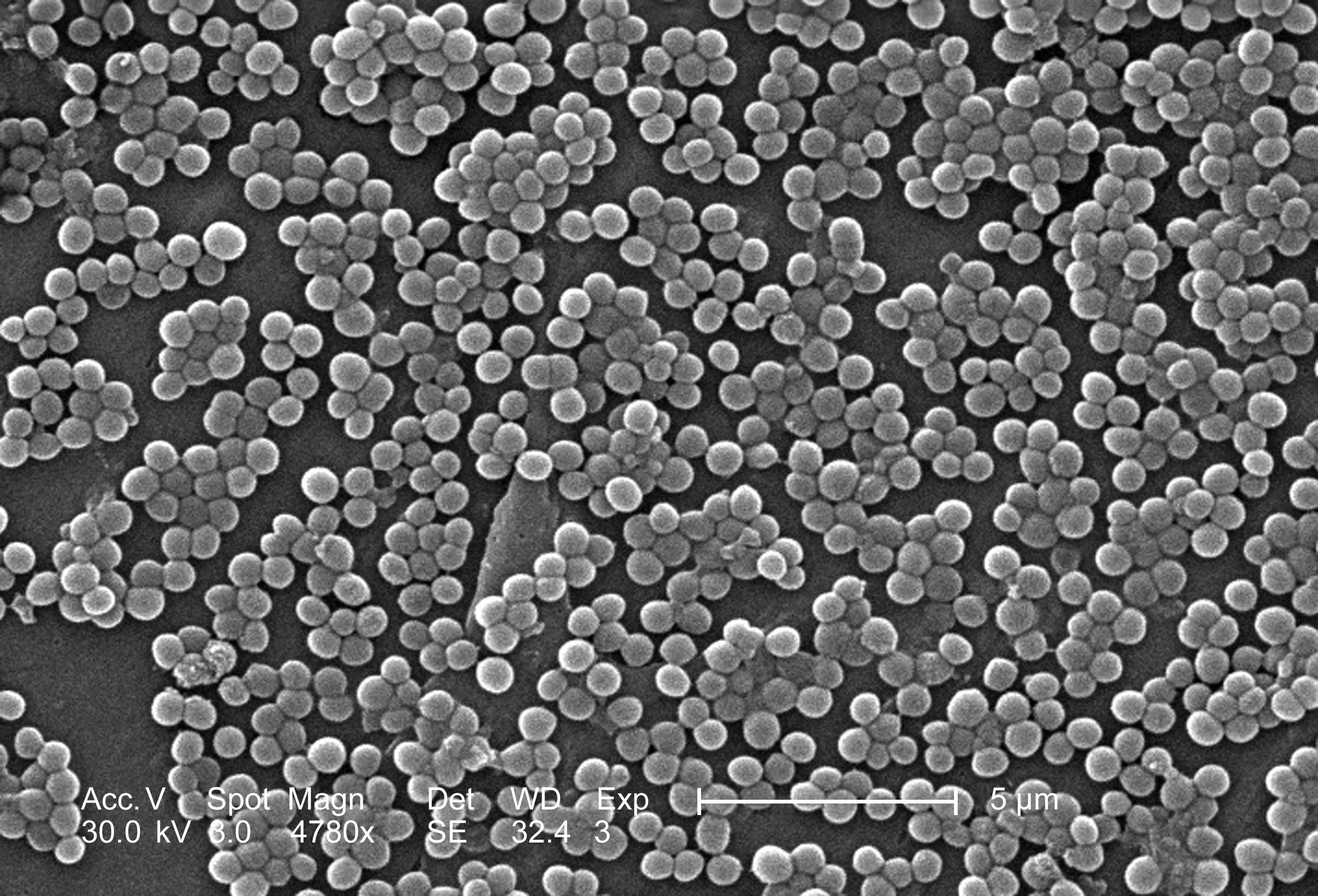 This 2005 colorized scanning electron micrograph (SEM) depicted numerous clumps of methicillin-resistant Staphylococcus aureus bacteria, commonly referred to by the acronym, MRSA; Magnified 4780. Recently recognized outbreaks, or clusters of MRSA in community settings have been associated with strains that have some unique microbiologic and genetic properties, compared with the traditional hospital-based MRSA strains, which suggests some biologic properties, e.g., virulence factors like toxins, may allow the community strains to spread more easily, or cause more skin disease. A common strain named USA300-0114 has caused many such of outbreaks in the United States. See PHIL 10045 for a colorized version of this image. Methicillin-resistant Staphylococcus aureus infections, e.g., bloodstream, pneumonia, bone infections, occur most frequently among persons in hospitals and healthcare facilities, including nursing homes, and dialysis centers. Those who acquire a MRSA infection usually have a weakened immune system, however, the manifestation of MRSA infections that are acquired by otherwise healthy individuals, who have not been recently hospitalized, or had a medical procedure such as dialysis, or surgery, first began to emerged in the mid- to late-1990's. These infections in the community are usually manifested as minor skin infections such as pimples and boils. Transmission of MRSA has been reported most frequently in certain populations, e.g., children, sports participants, or jail inmates.